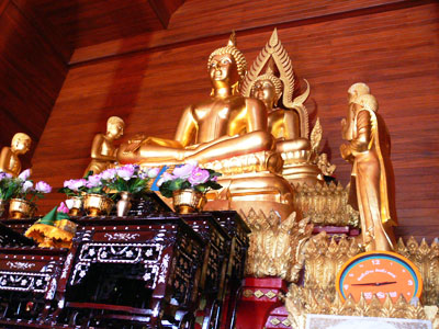 Principal Buddhist image housed by Ubosot of Wat Sonthikornpracharam